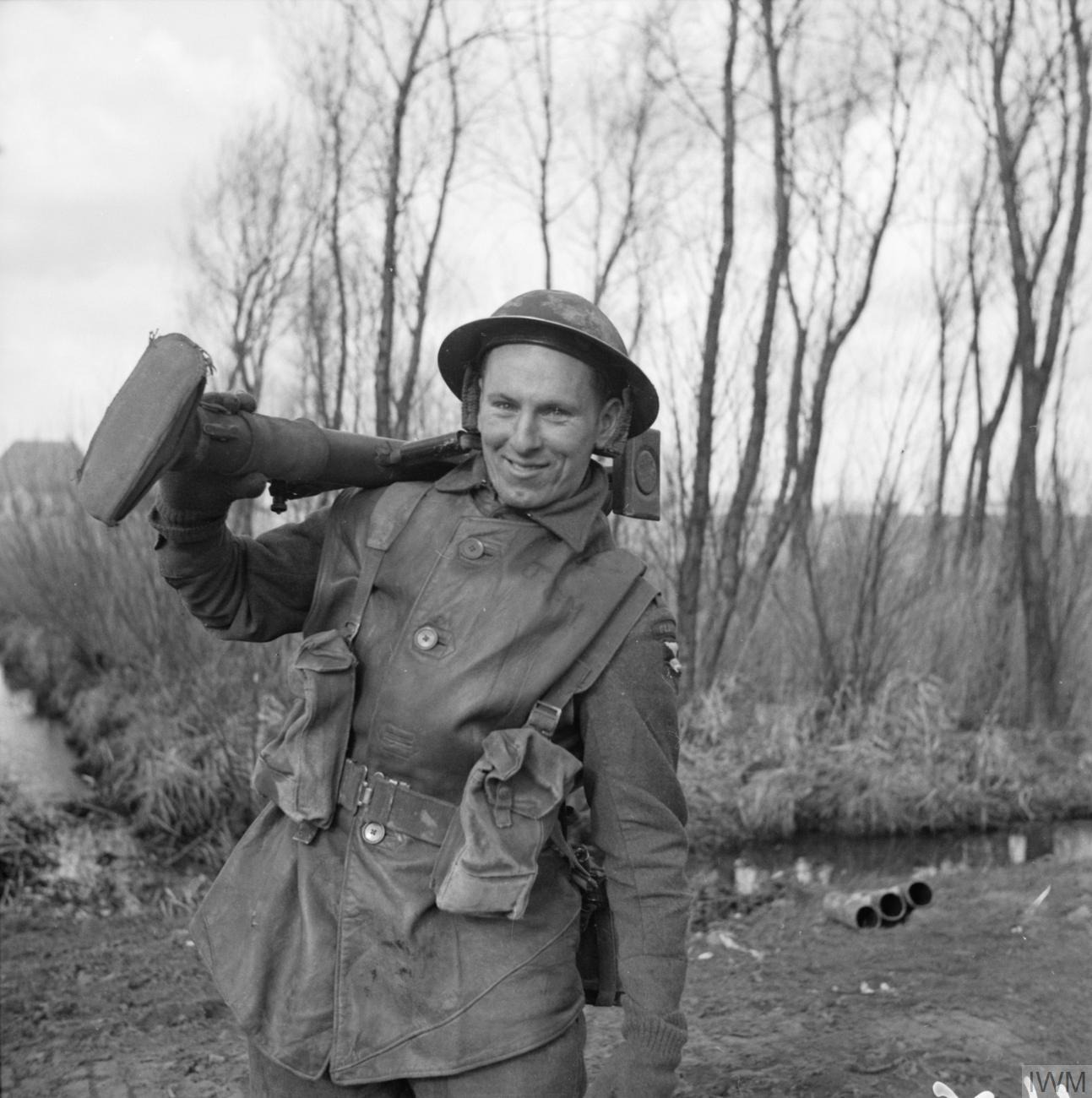 The British Army in North-west Europe 1944-45 Private G Mills of 2nd Gloucestershire Regiment, armed with a PIAT, 6 March 1945.